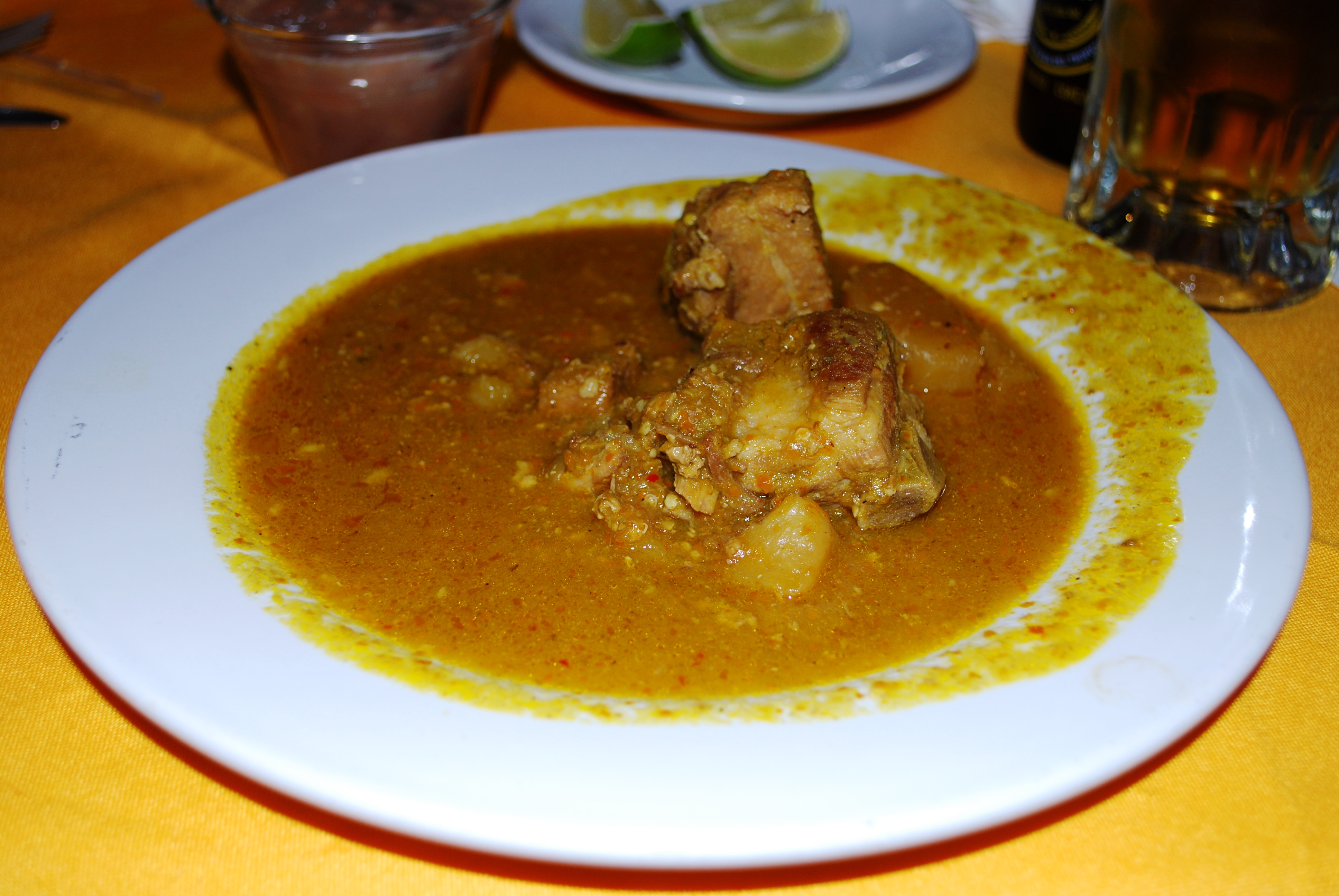 "Chileajo" pork with a sauce made from a yellow chili pepper. Regional to Huajuapan, Oaxaca